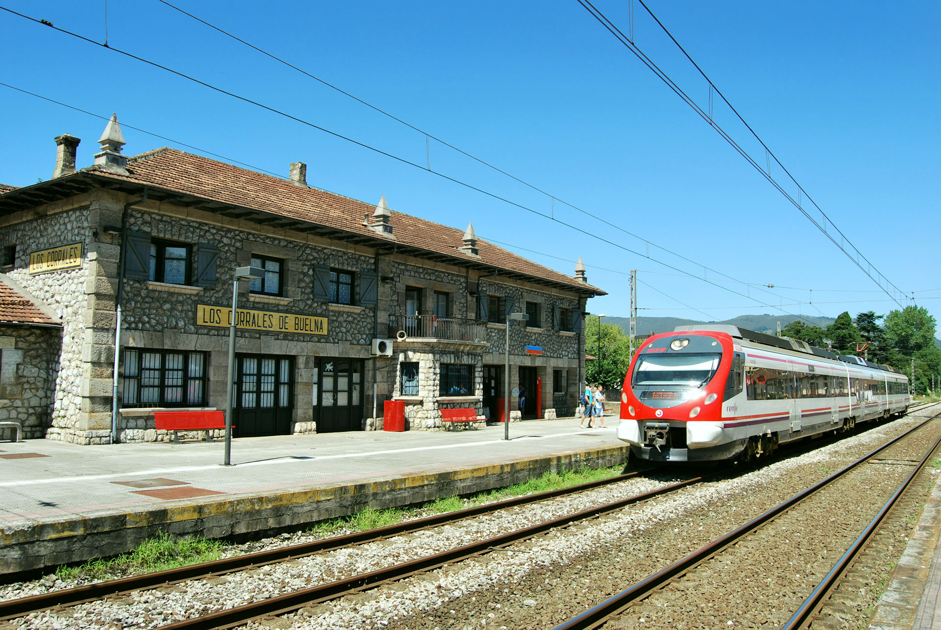 Train station of Los Corrales de Buelna in Cantabria (Spain).